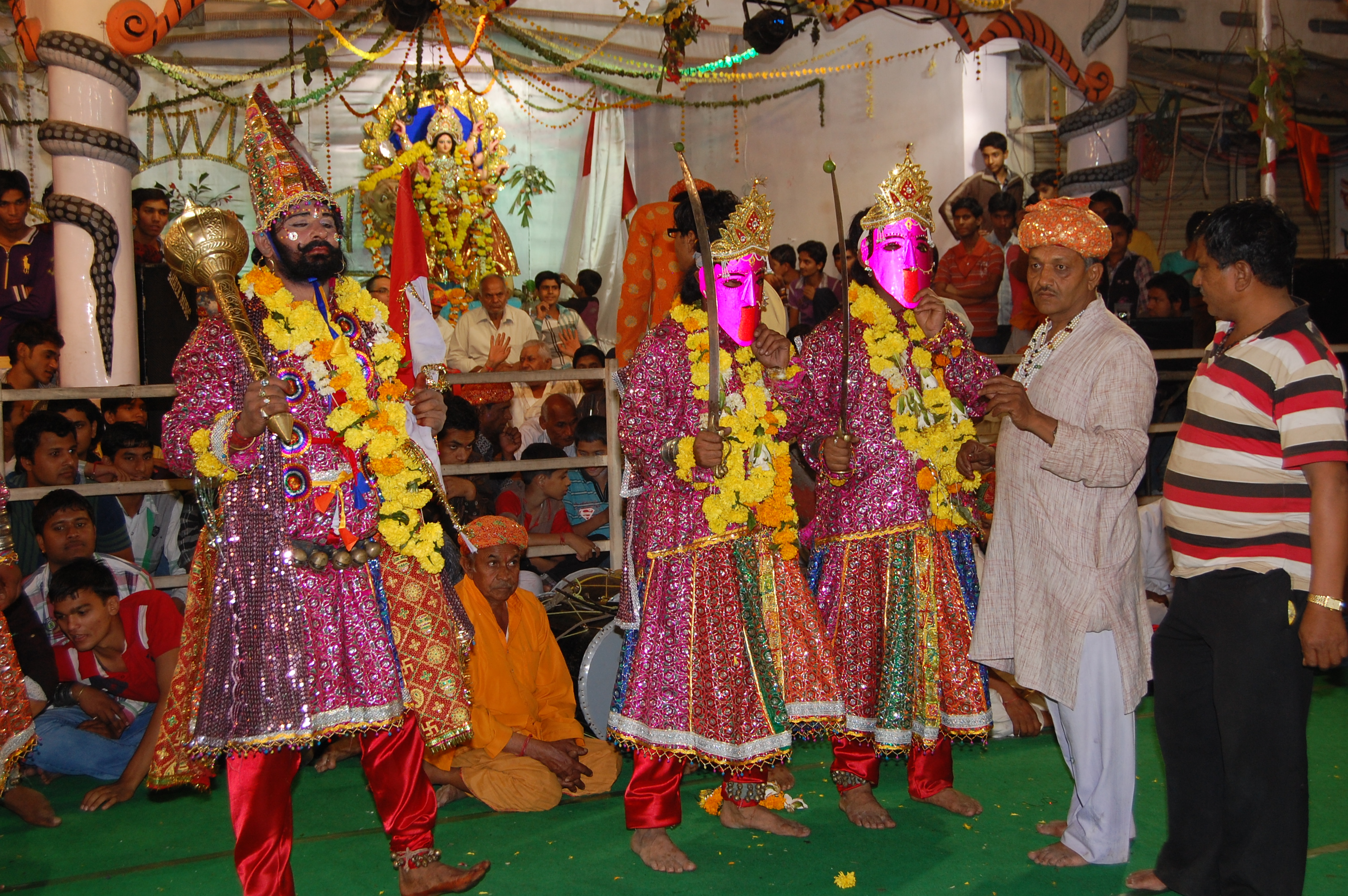 This picture is of Chausath Maharani